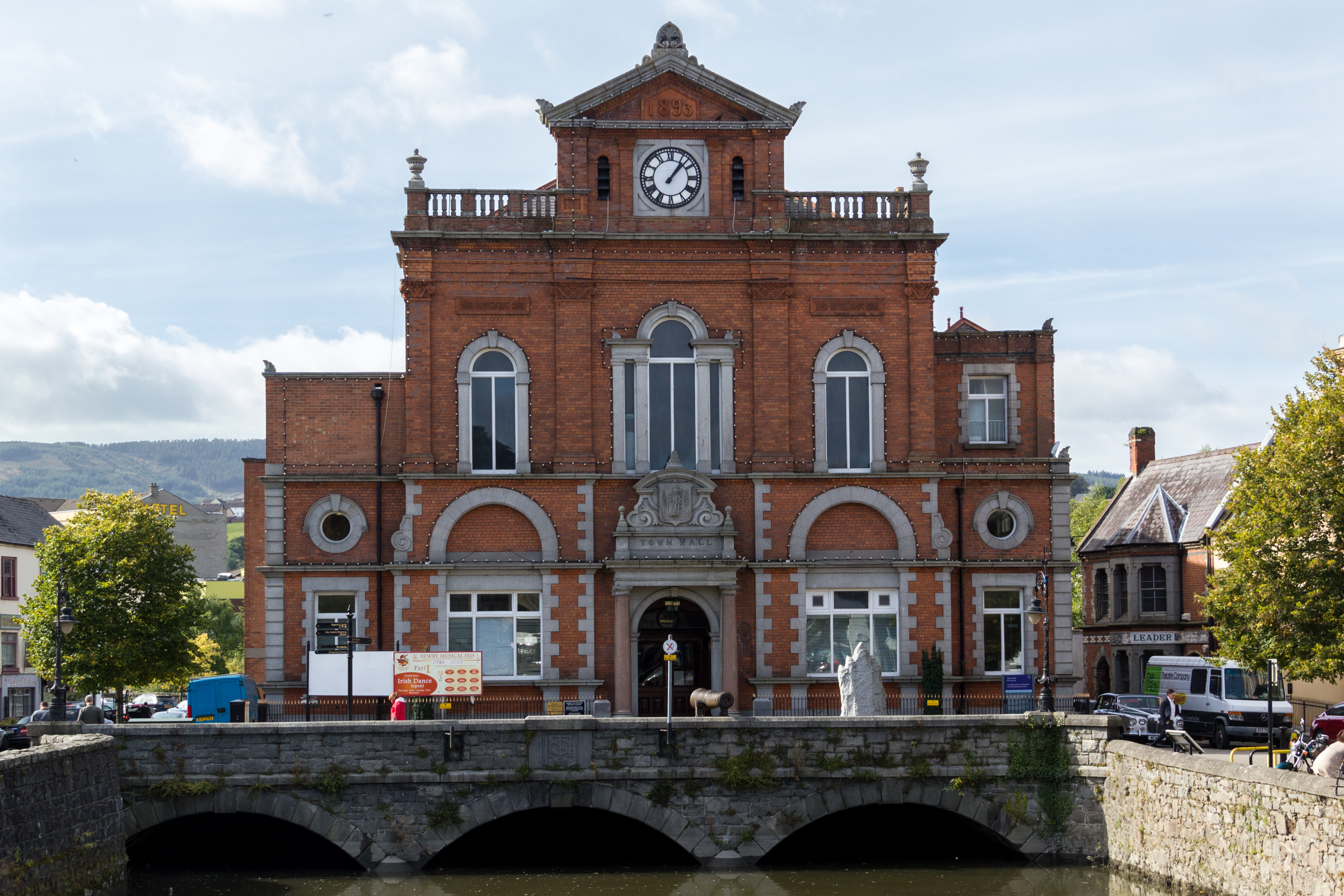 Newry Town Hall, Northern Ireland, 2013